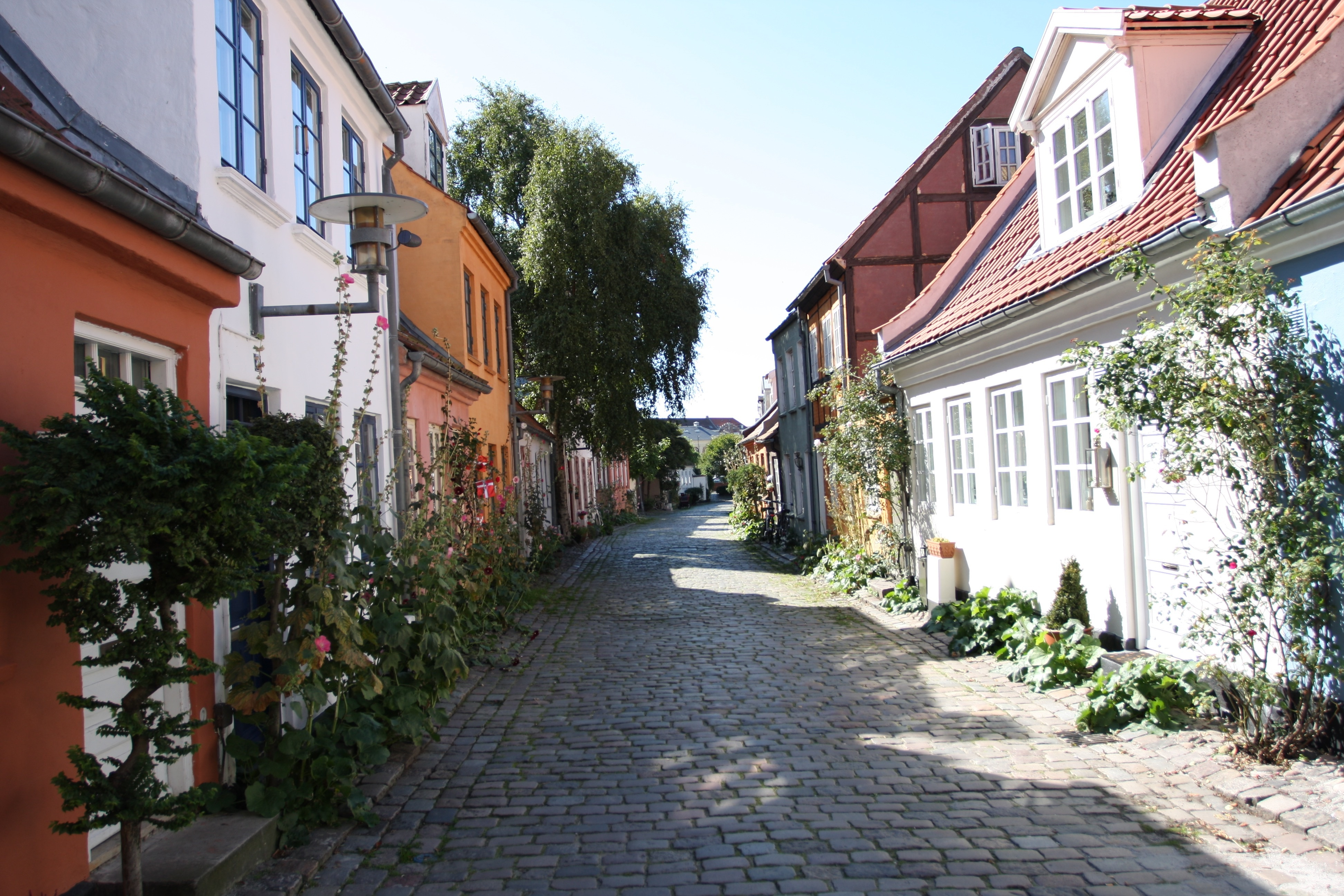 Møllestien